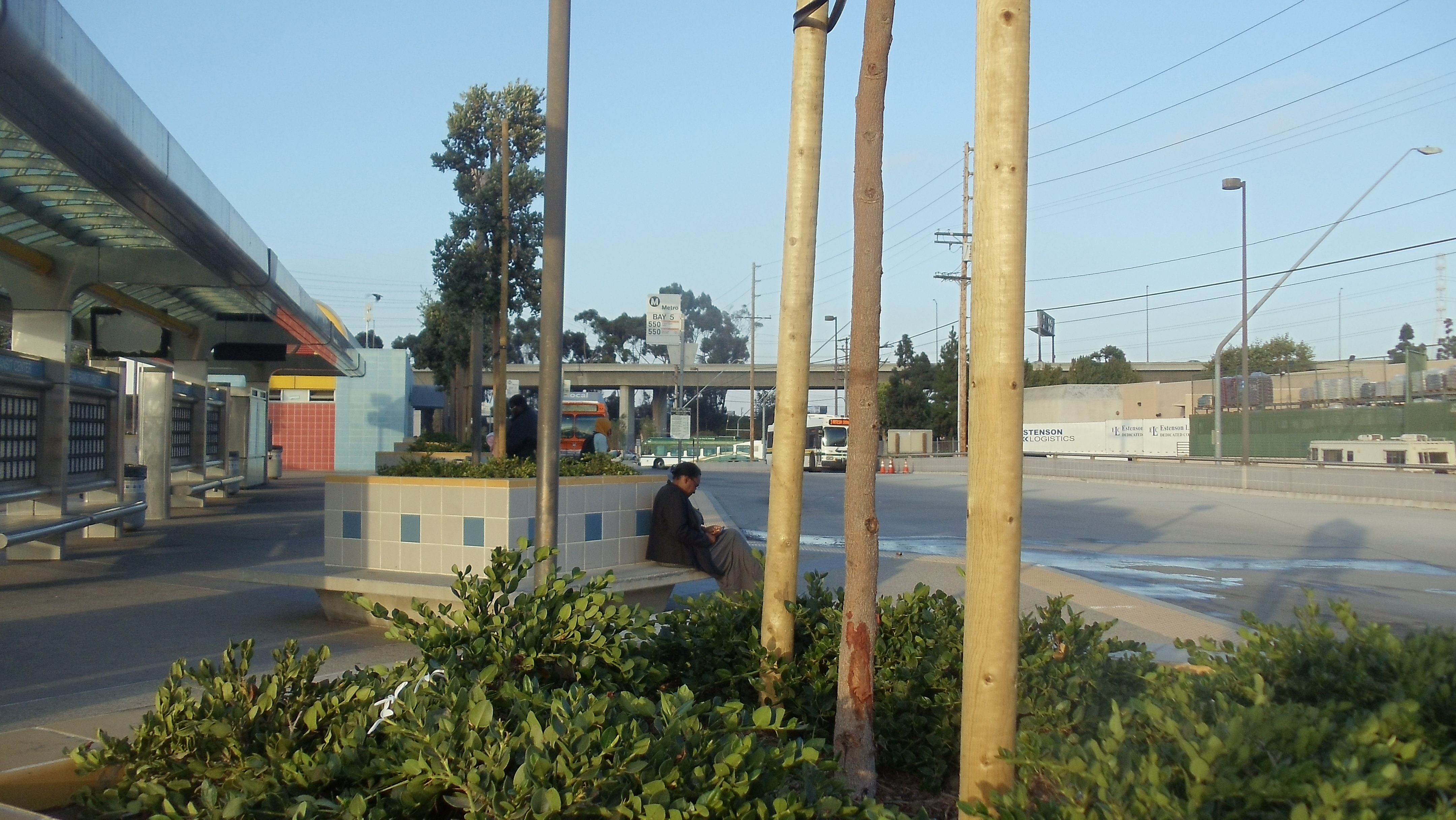 New trees were planted recently.